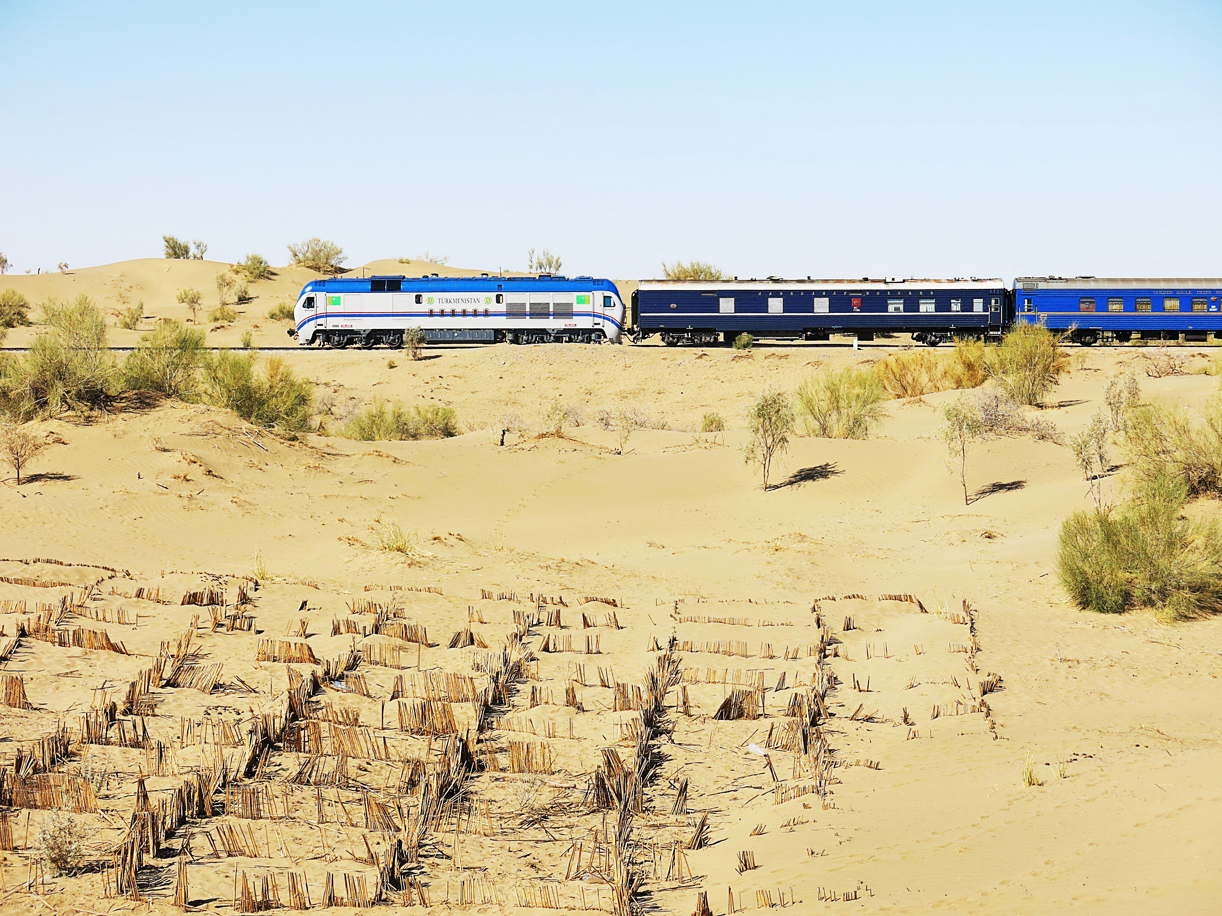 Express train on the Trans-Karakum railway cross line Daschoguz - Aschgabat between the desert settlements Yerbent and Bokurdak